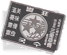 samsung logo used 1938.